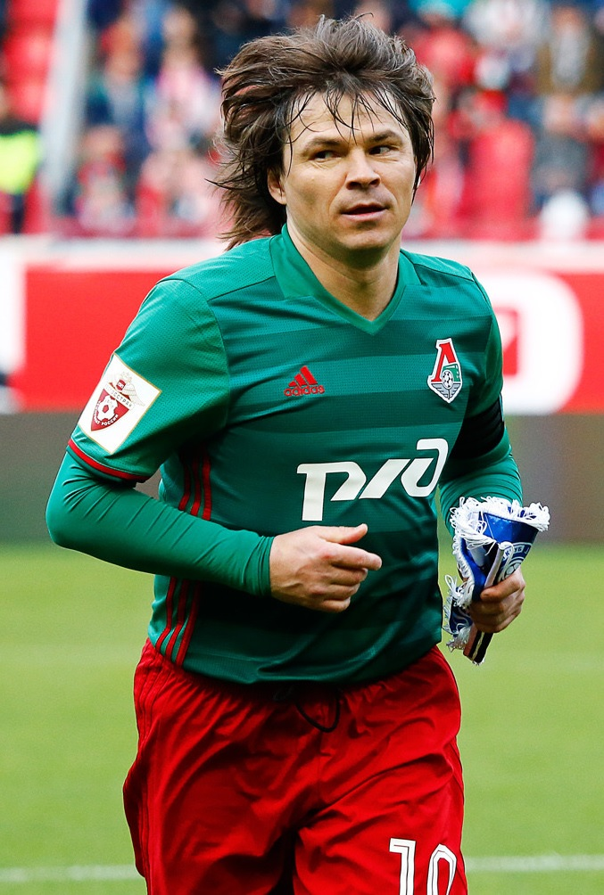 Dmitri Loskov in his farewell game for FC Lokomotiv Moscow against FC Orenburg.